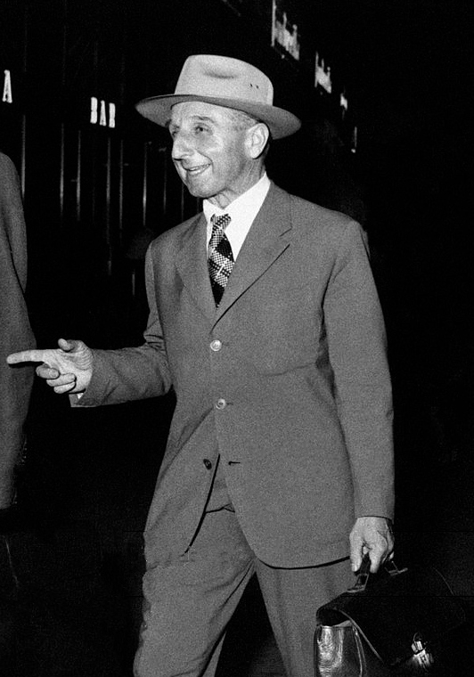 Italian explorer and geologist Ardito Desio, member of CAI (Club Alpino Italiano) and director of the Geology Department at the University of Milan, setting off on a new expedition to K2 for scientific researches. Rome, July 1955.